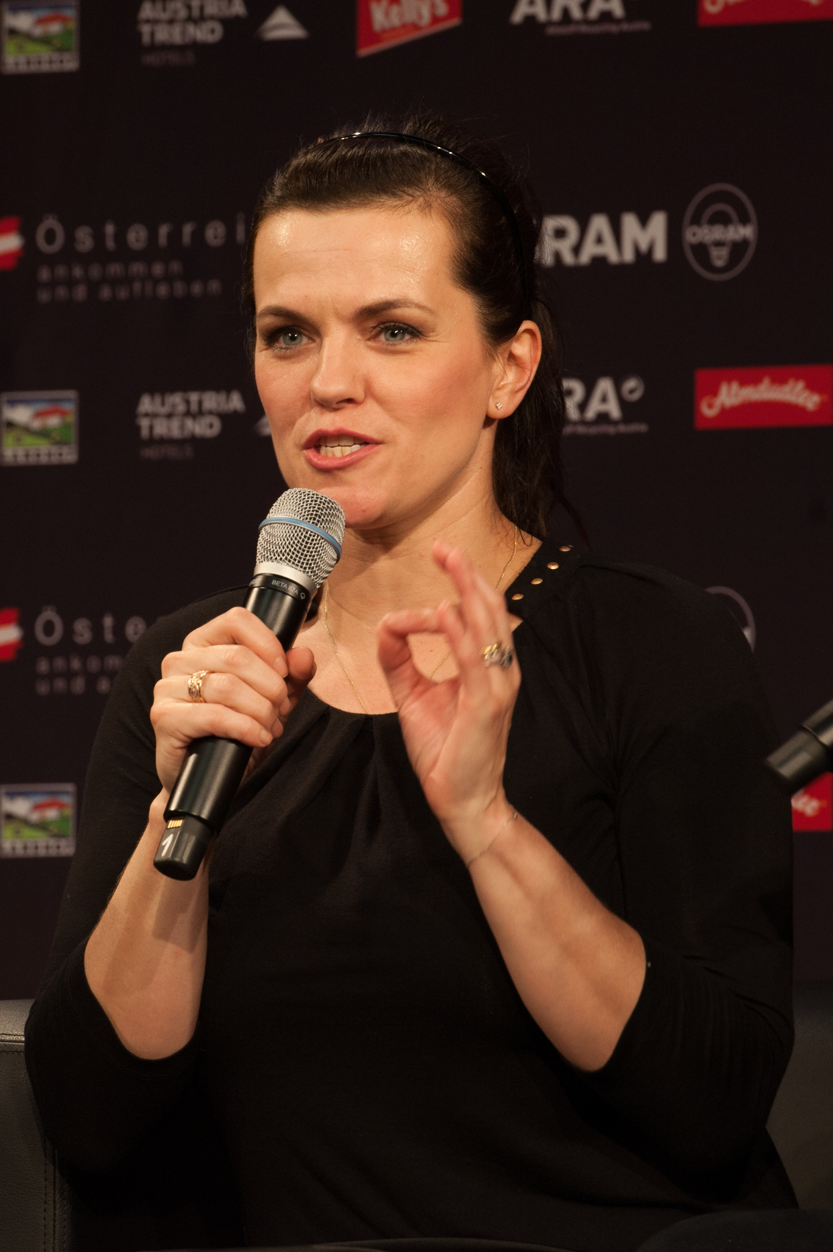 Eurovision Song Contest Vienna 2015: Marta Jandová